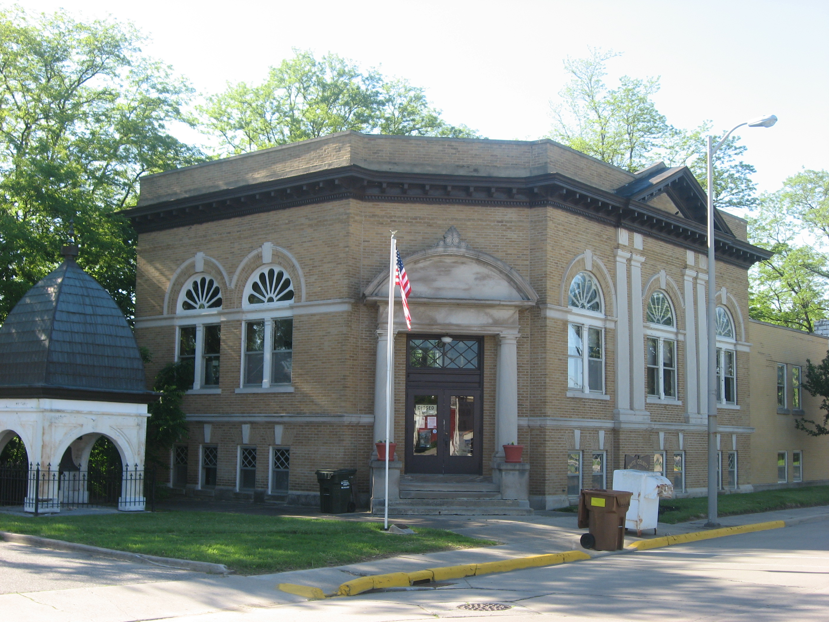 Front and northern side of the Monticello Carnegie Library, located at 101 S. Bluff Street in Monticello, Indiana, United States. Built in 1907, it is now the White County Historical Museum, and it is listed on the National Register of Historic Places.